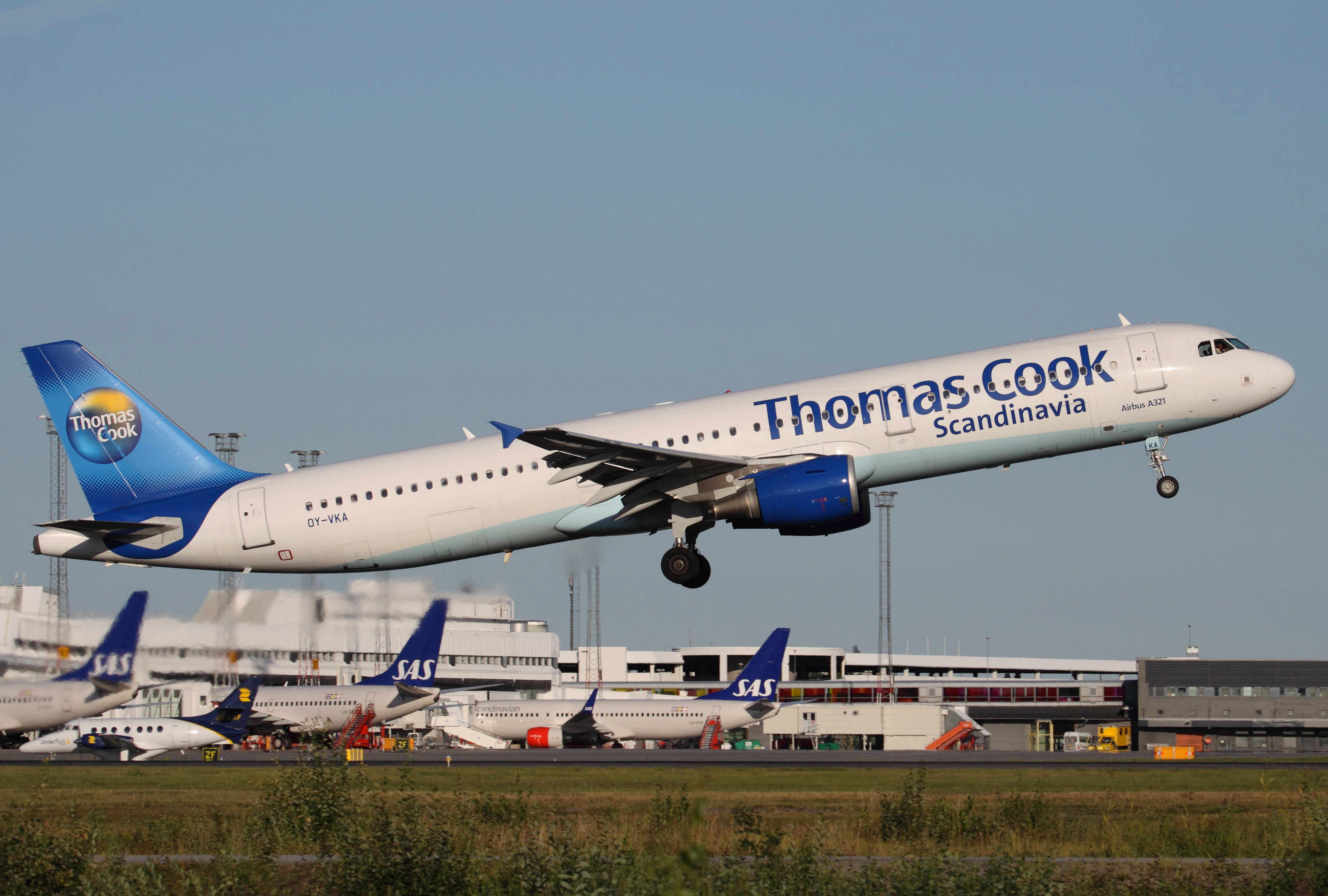 Thomas Cook Scandinavia Airbus A321 is taking off from runway 19R at Stockholm - Arlanda Airport, Sweden